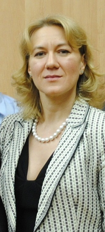 The Chairman of the AGRARIAN PARTY of RUSSIA , restored and registered in 2012 y.